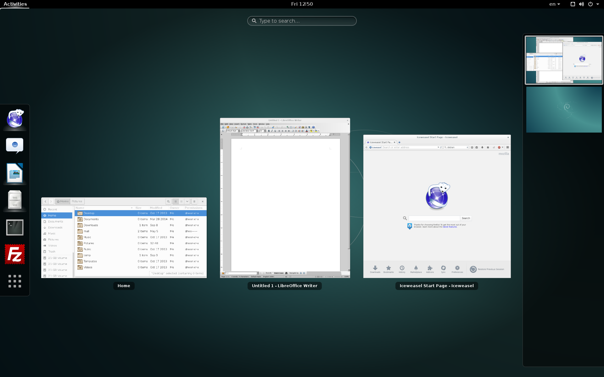 Screenshot of Debian GNU/Linux 8.2 GNOME desktop with some free software applications.